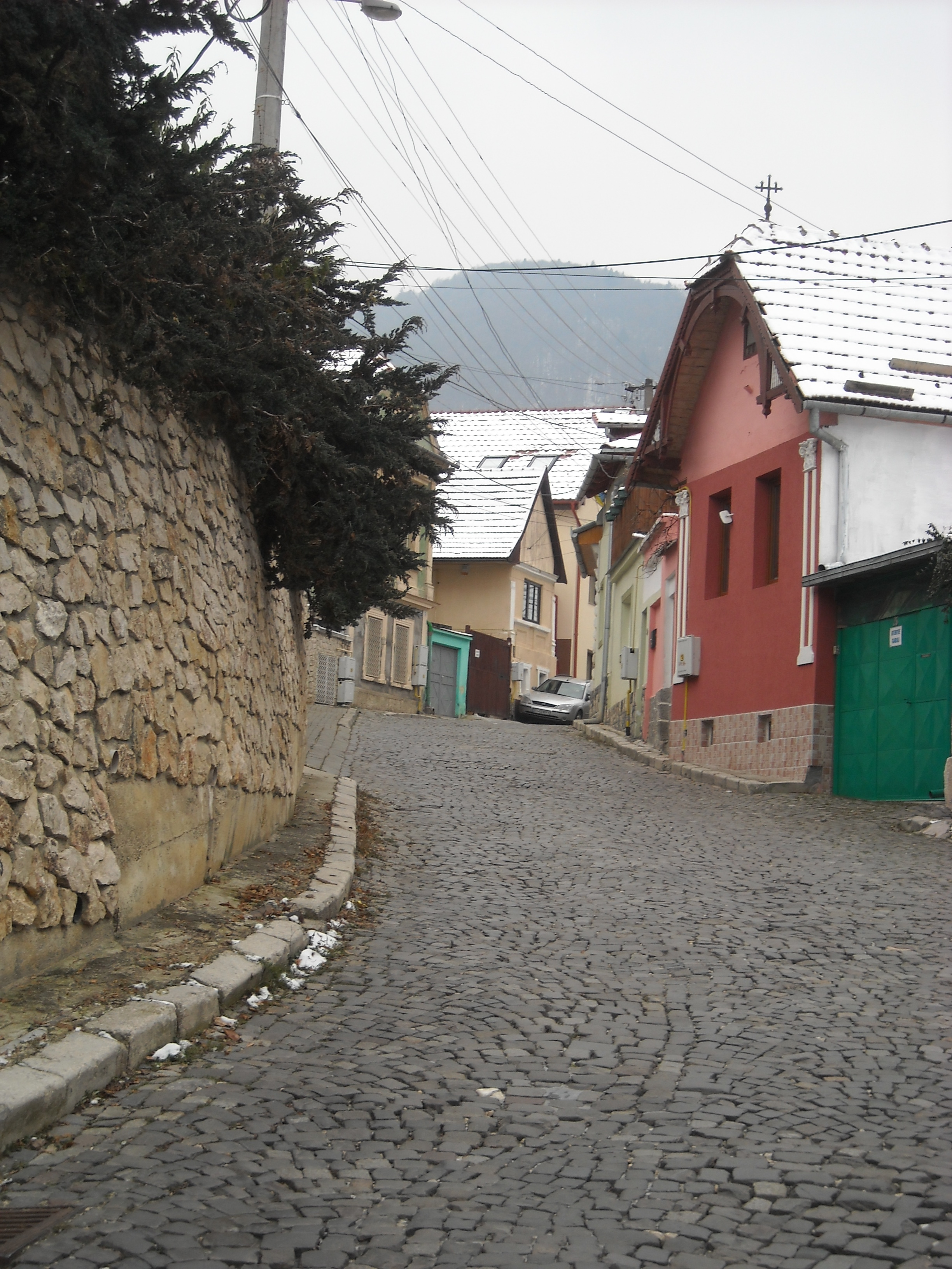 Pajiște neighbourhood of Șcheii Brașovului